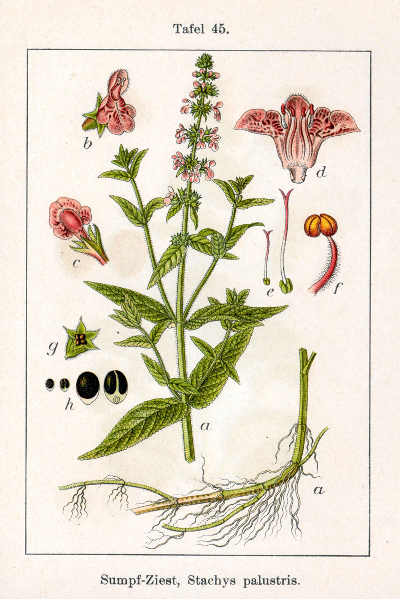 Stachys palustris L. Original Description Sumpf-Ziest, Stachys palustris